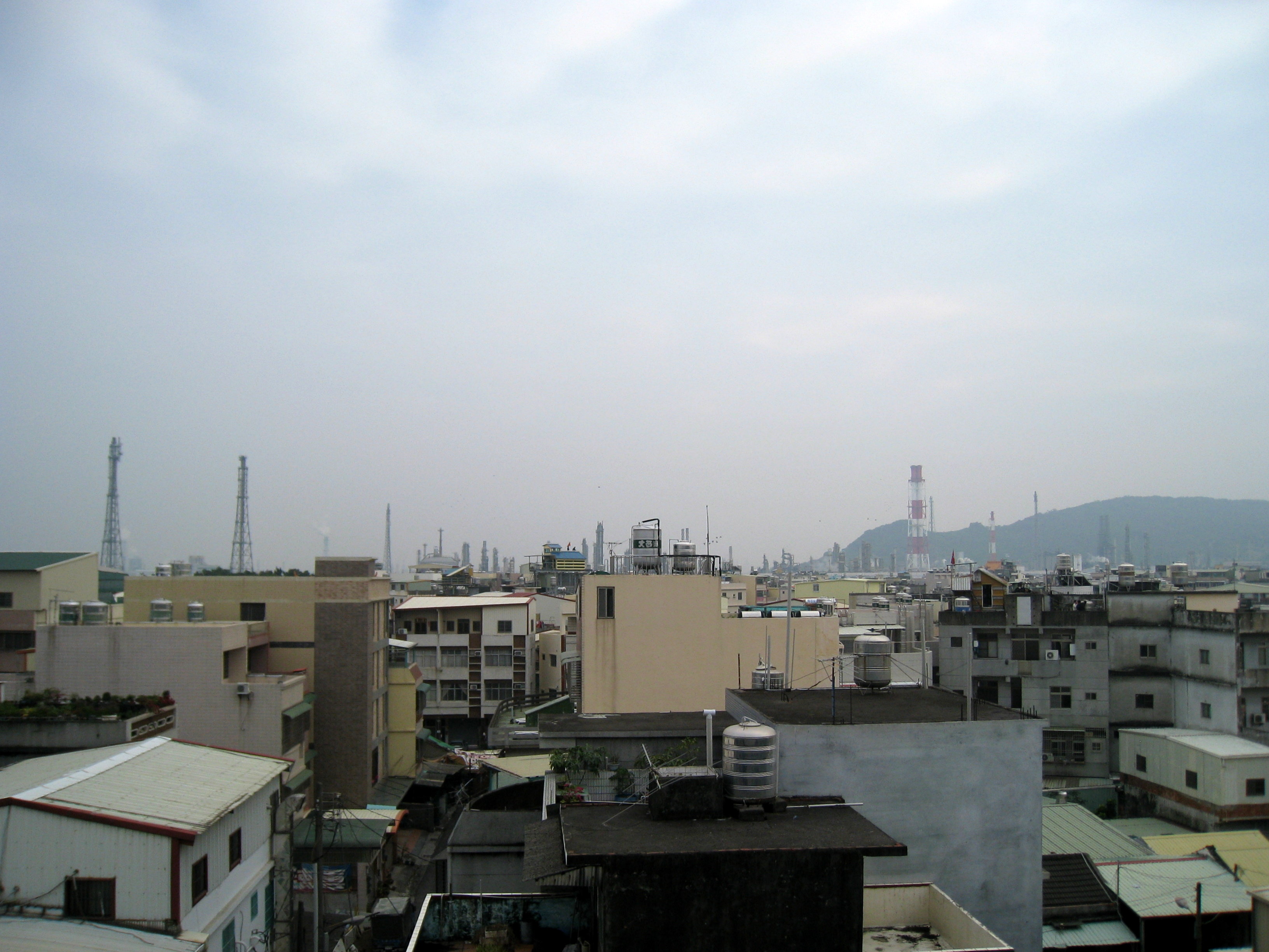 Houjin, Nanzih, a view from the KMRT station